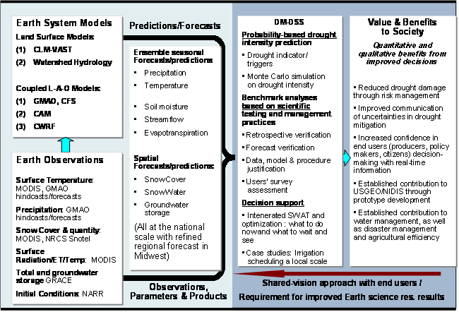 The goal of this project is to develop seasonal predictive capacity for the Drought Monitor-Decision Support System (DM-DSS), using Earth science models and satellite products. The DM-DSS was produced jointly by several national institutes, led by the National Drought Mitigation Center ( NDMC ) at the University of Nebraska-Lincoln. The Monitor presents a single, easy-to-read color map that summarizes current information from numerous drought indices and indicators. The enhanced DM-DSS with a predictive capacity will allow society's response to a drought from a traditional "crisis management" scenario, which emphasizes emergency response, to a "risk management" approach, which places greater emphasis on preparedness planning and mitigation actions.